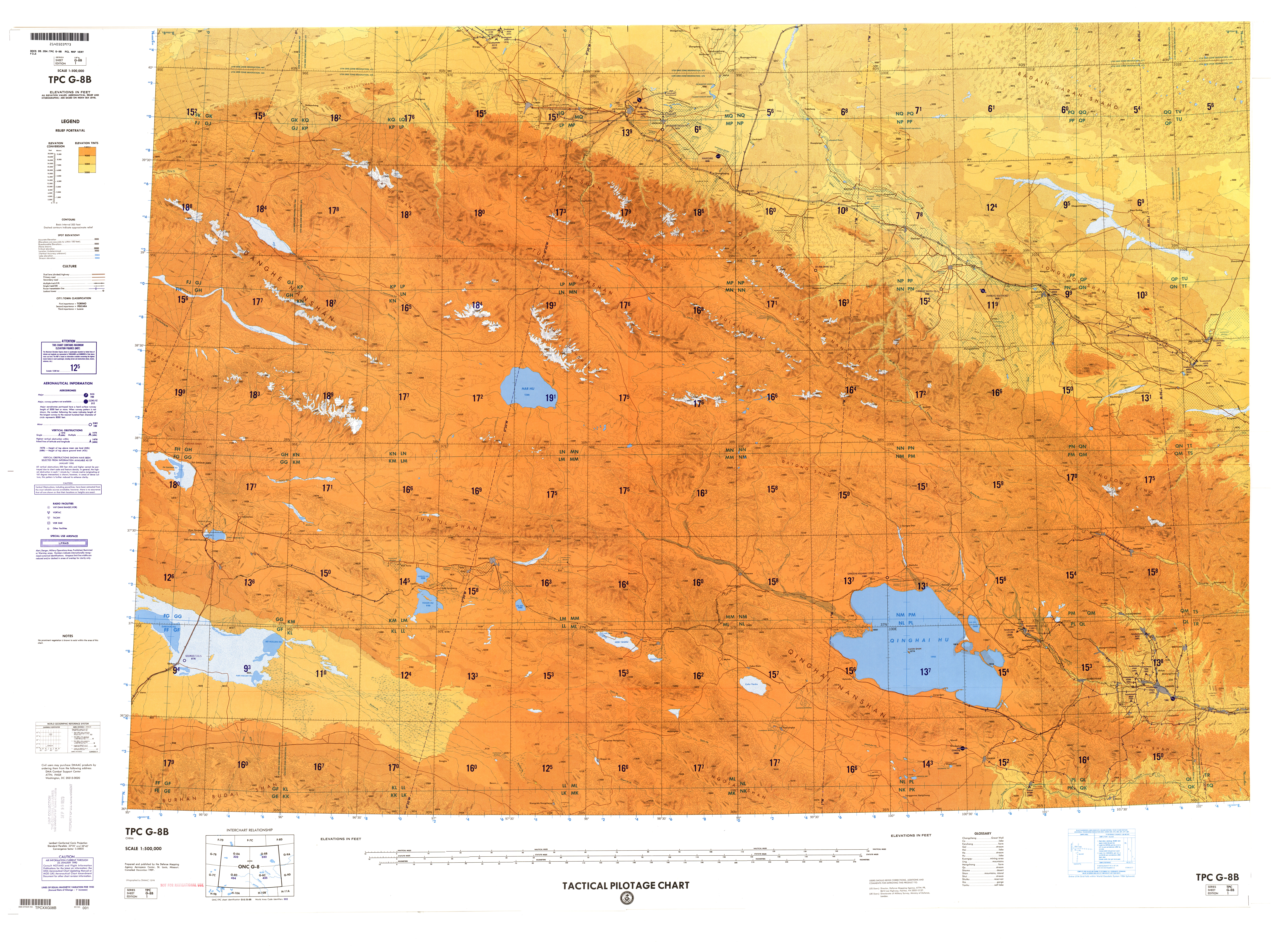 Tactical Pilotage Chart Series - World 1:500,000 Scale